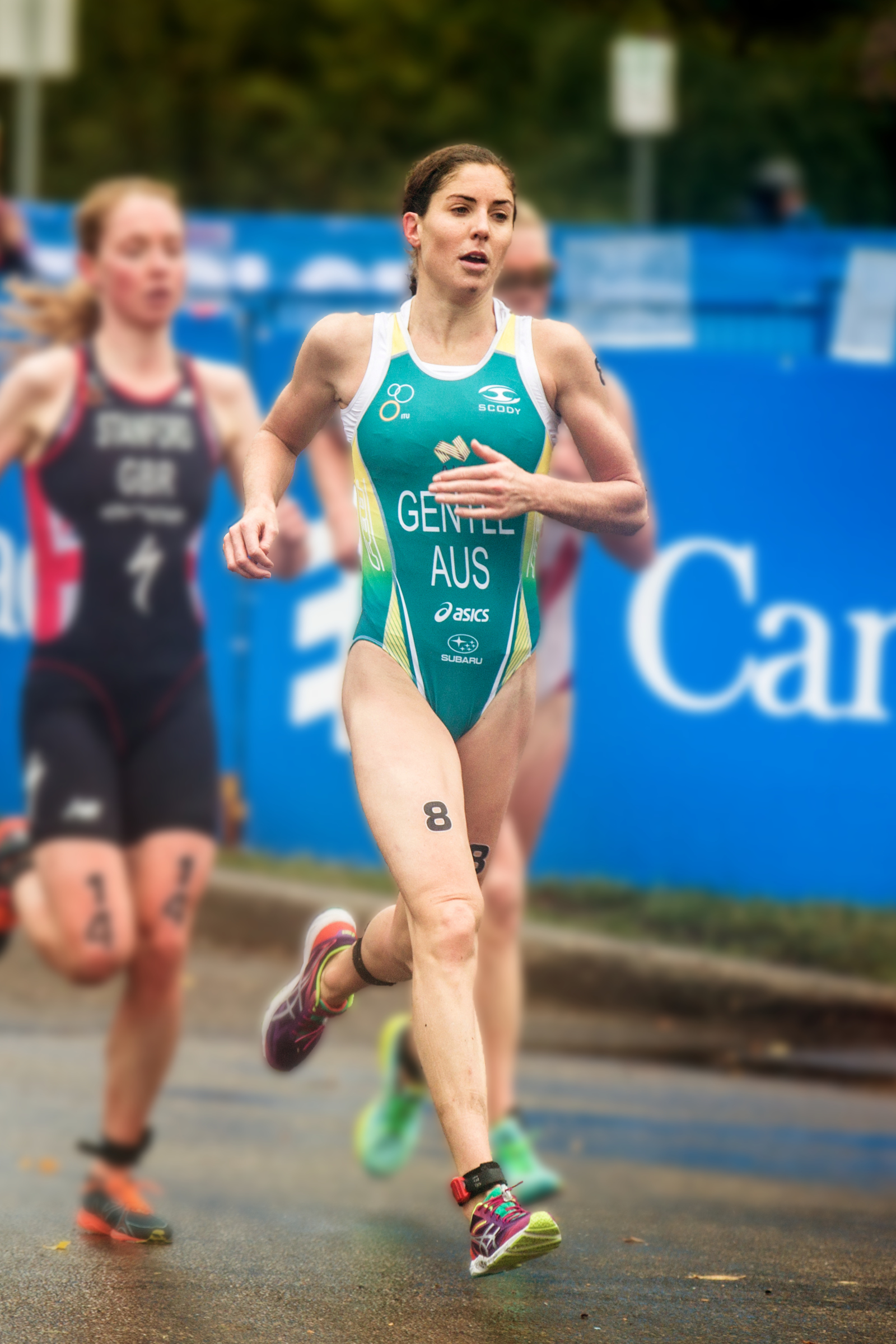 Australian triathlete Ashleigh Gentle at the World Triathlon Series in Edmonton in 2015